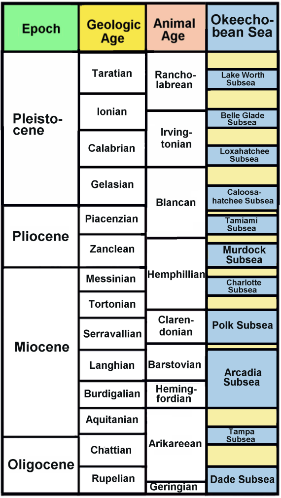 Table displaying geological ages and NALMA with Okeechobean Sea